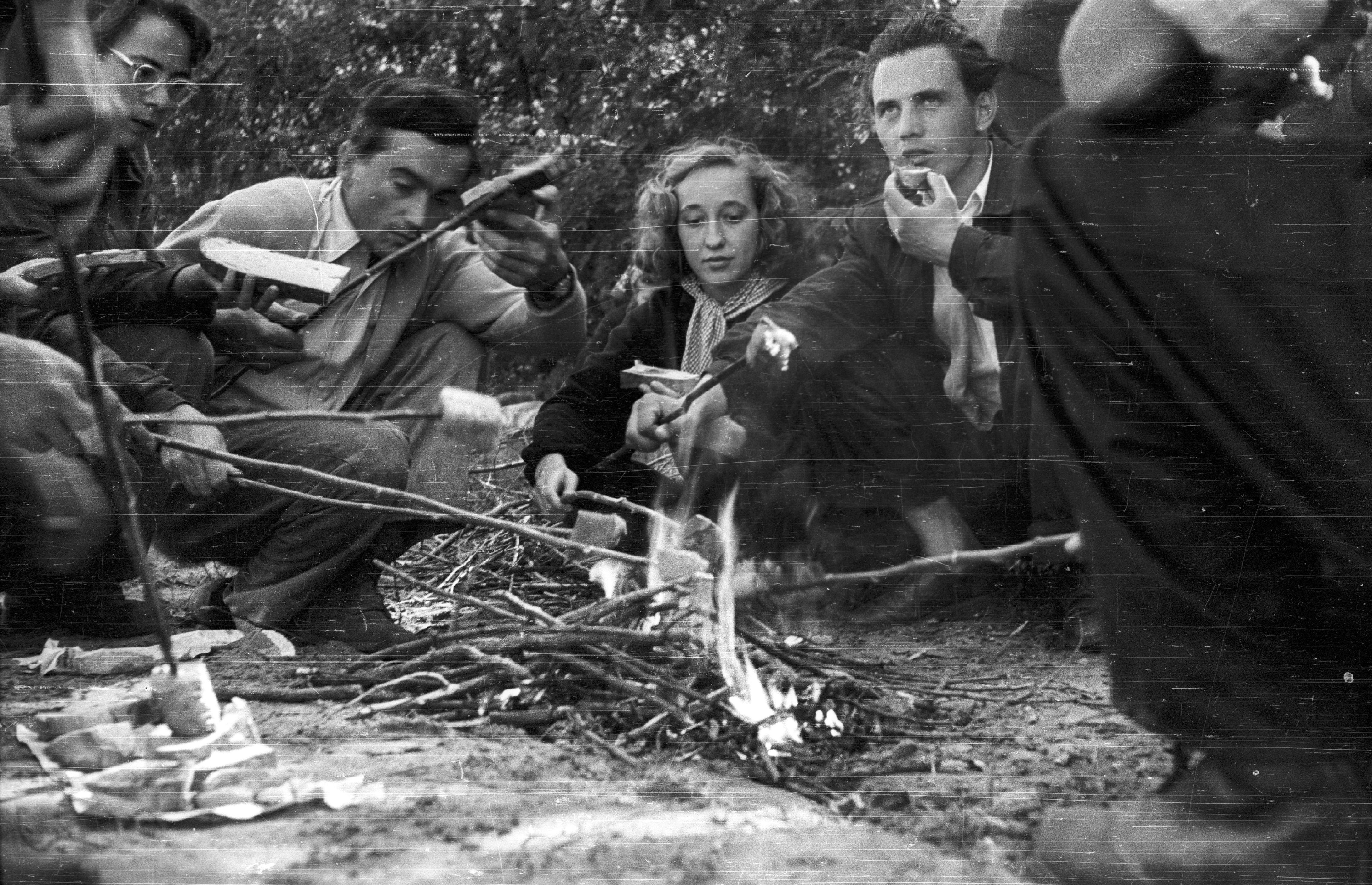 Location: Hungary Tags: genre painting, bacon roasting, fire, companionship, men, women